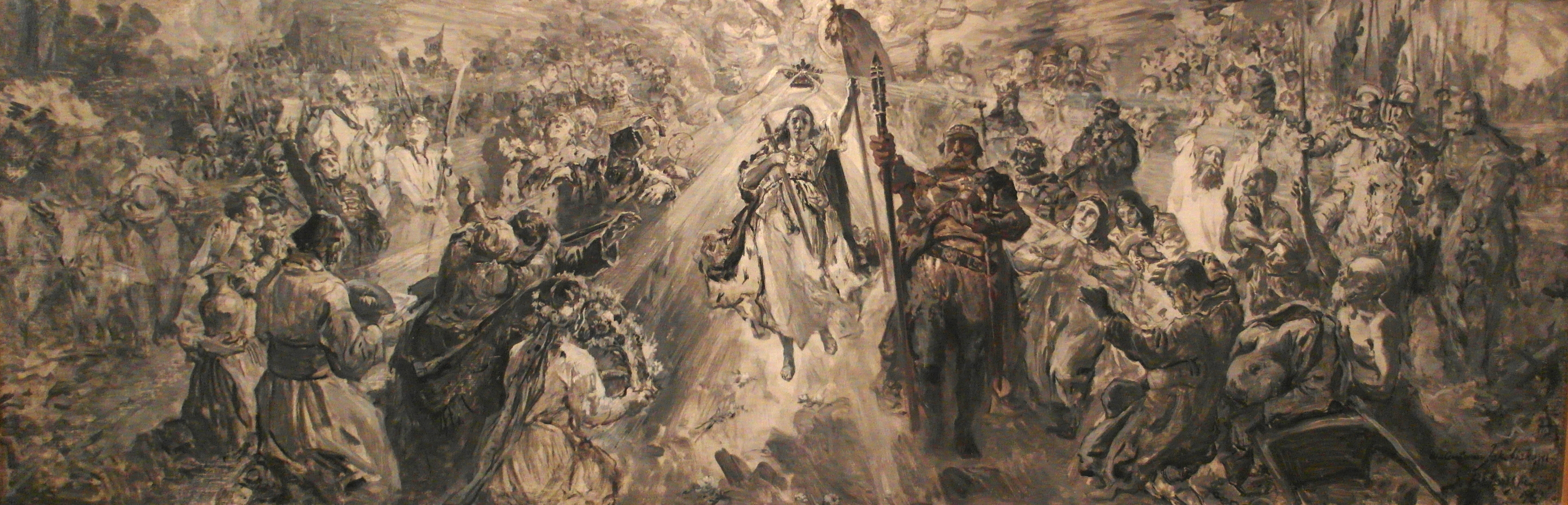 Polonia Tryumphans by Stanisław Kaczor-Batowski, 1929